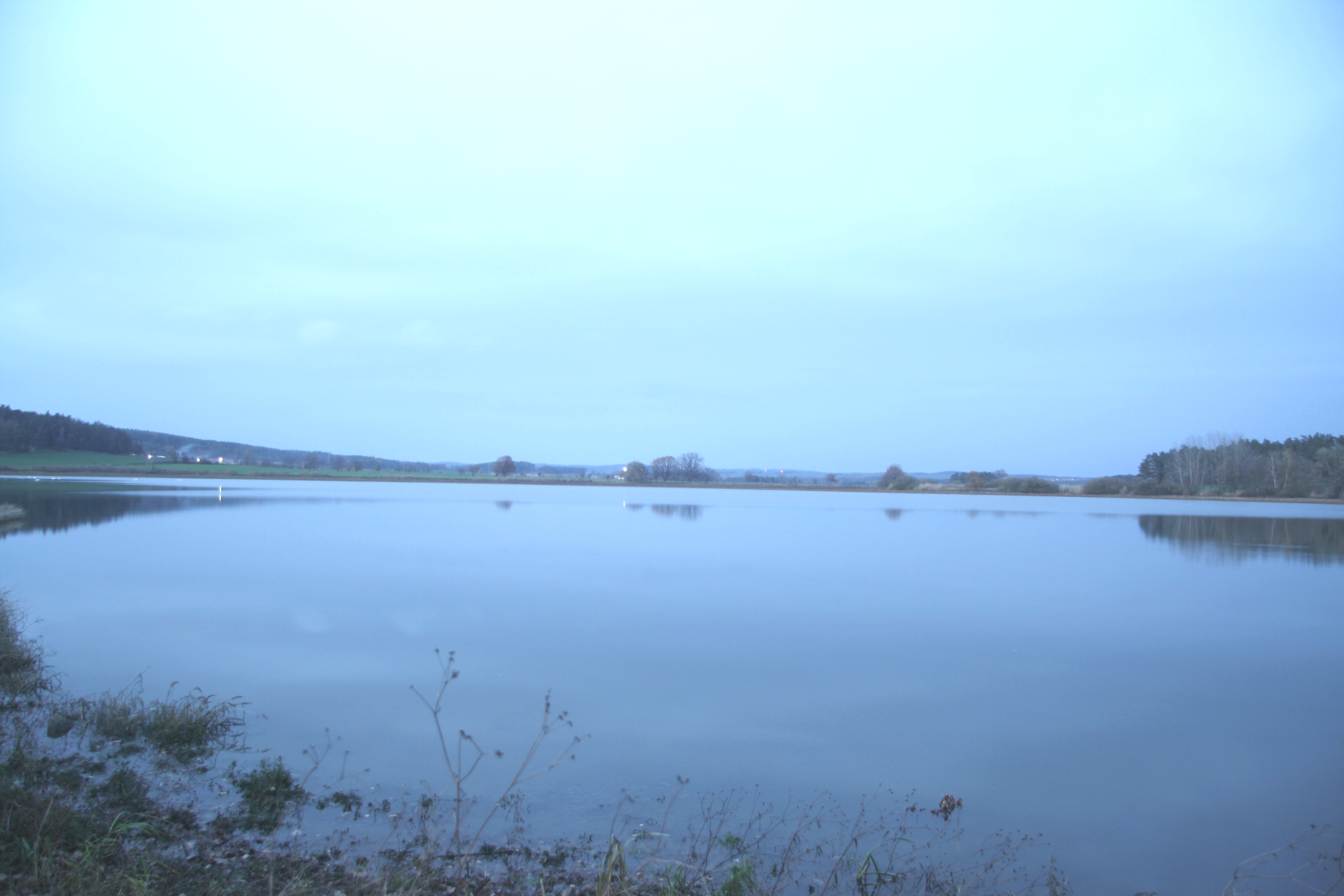 Overview of Dubovec pond near Zahrádka, Třebíč District.